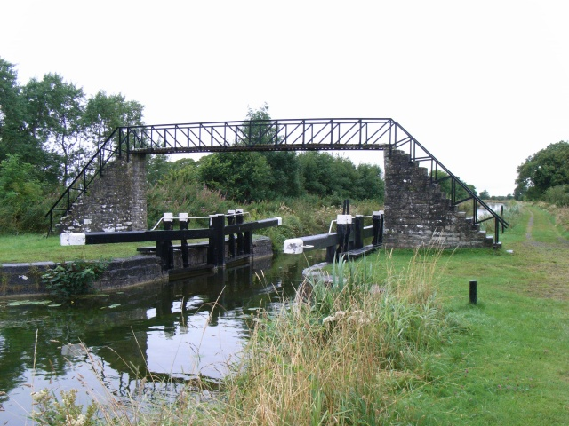 The Ribbontail Bridge & Guard Lock, near Longwood, Co. Meath Said to have been built to afford access to a nearby church, although there's nothing on the OS maps, old or current.